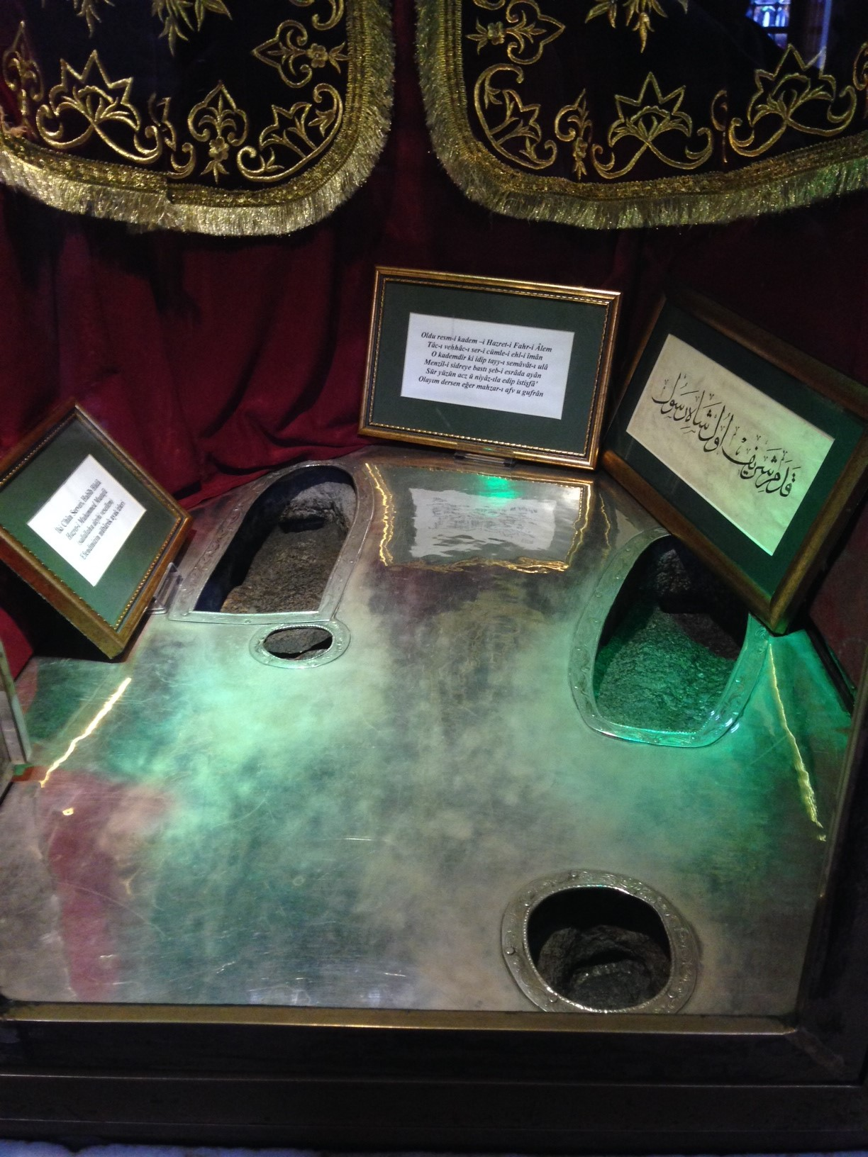 One of the Holy Footprints of Prophet Muhammad, Istanbul